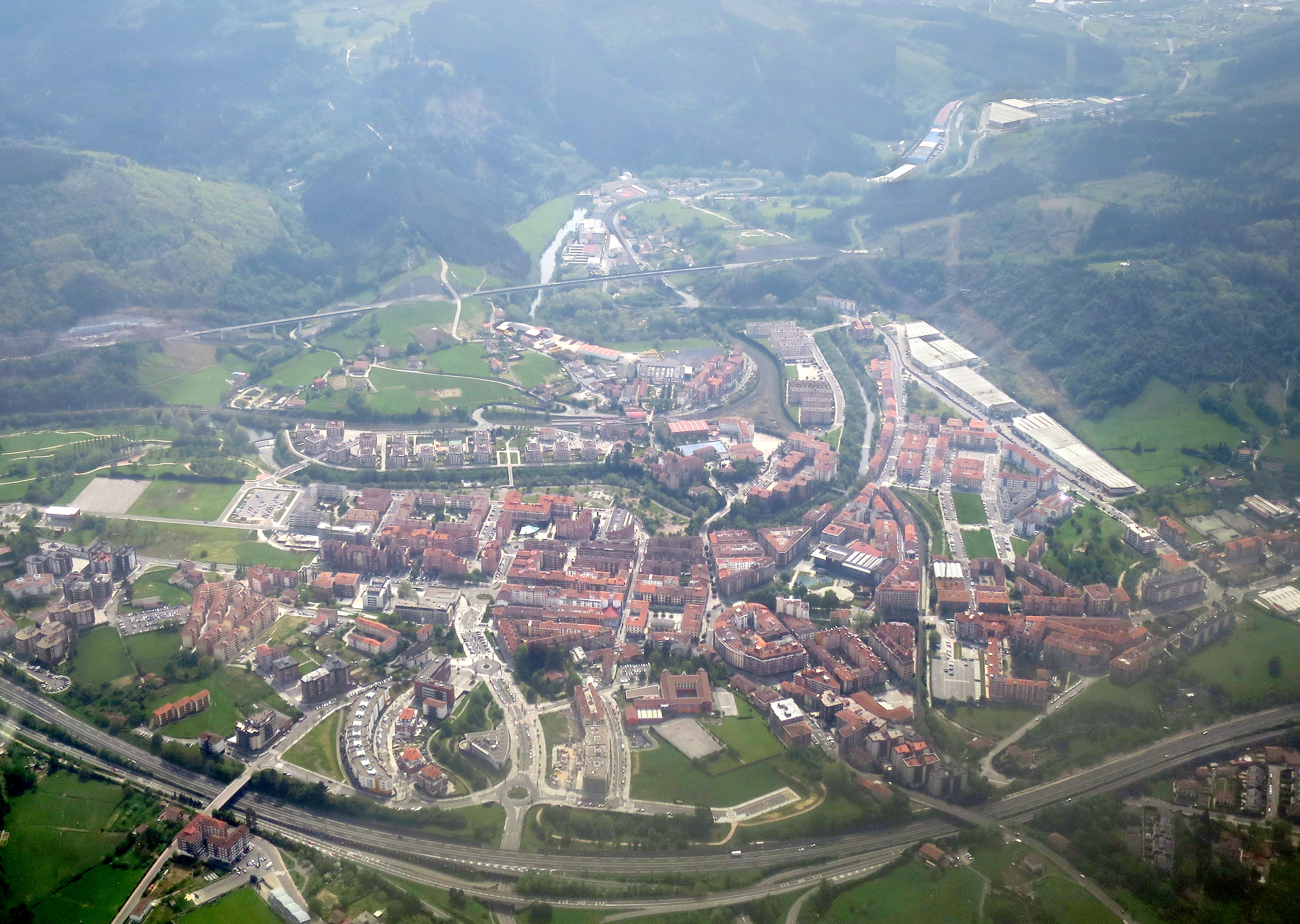 An aerial view of Zornotza, otherwise known as Amorebieta-Etxano, which is in the Basque Country.